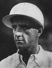 Lewis L. Lacy